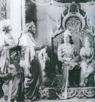 Screenshot from 1941 Tamil Film Madanakamarajan.